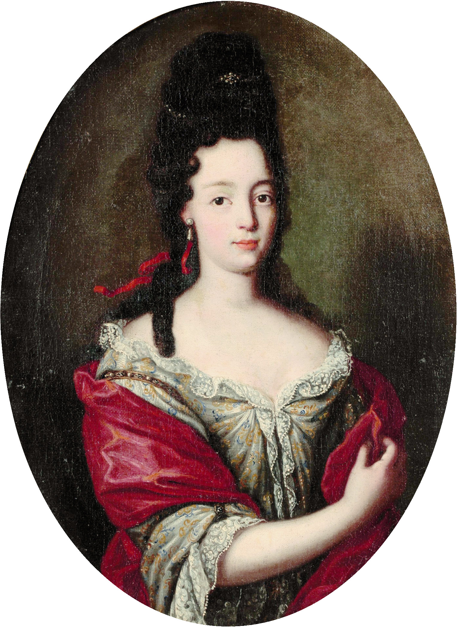 Portrait of Maria Angela Caterina d'Este (1656-1722); born a princess of Modena, she married the Prince of Carignan in 1684; the painting was auctioned by HRH the Princess of Savoy